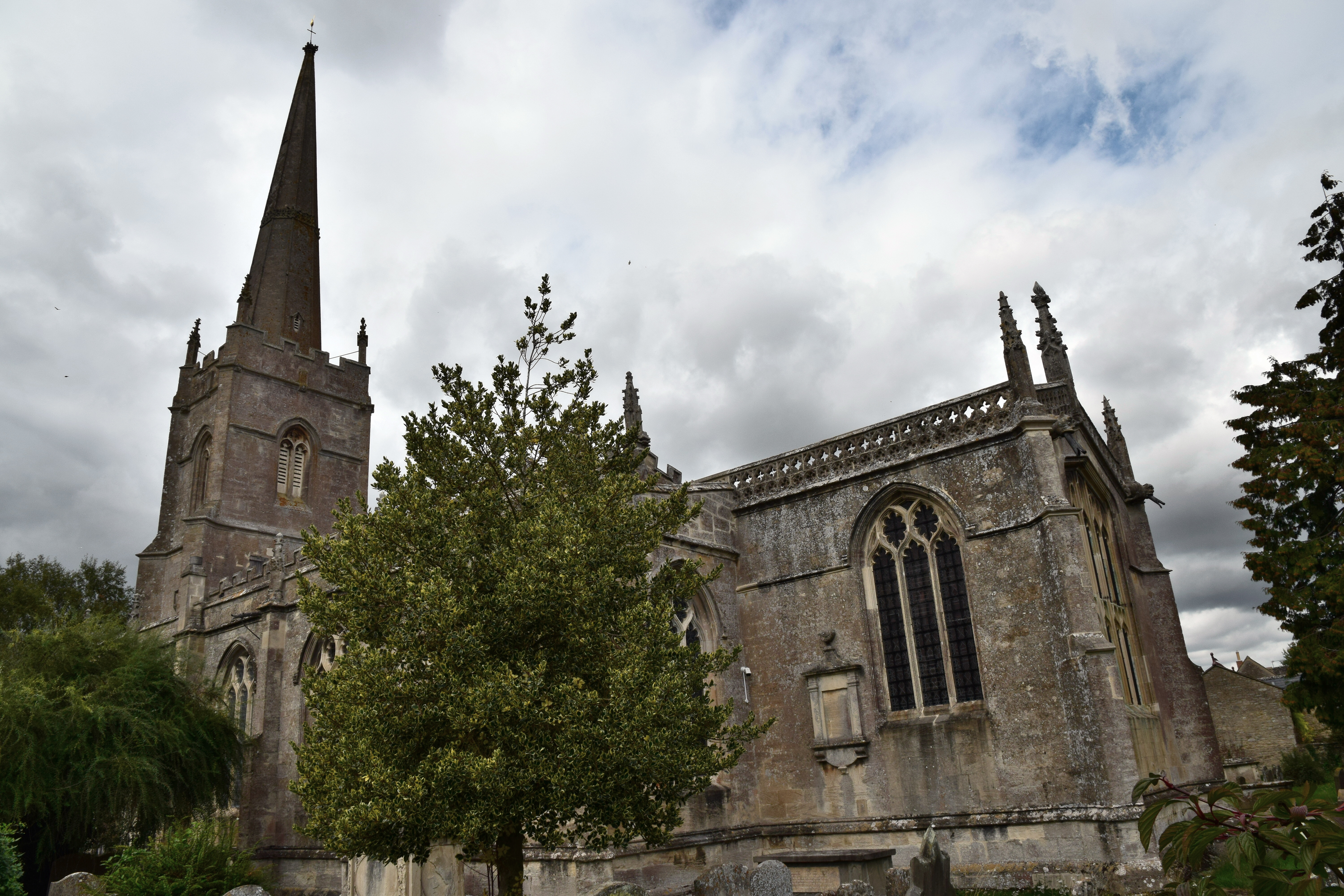 Lechlade Church (Saint Lawrence), Gloucestershire, 6 September 2018. Perpendicular, 15th Century naver and chancel (1470-76), early 16th Century nave clerestory and roof, north porch, tower and spire. Pictured is the south elevation.